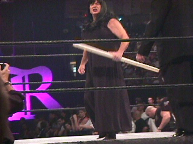 Gerald Brisco at the WWF King of the Ring at the Fleet Center in Boston, MA June 25, 2000. Mr. Brisco fought Pat Patterson in a "Hardcore Evening Gown match".